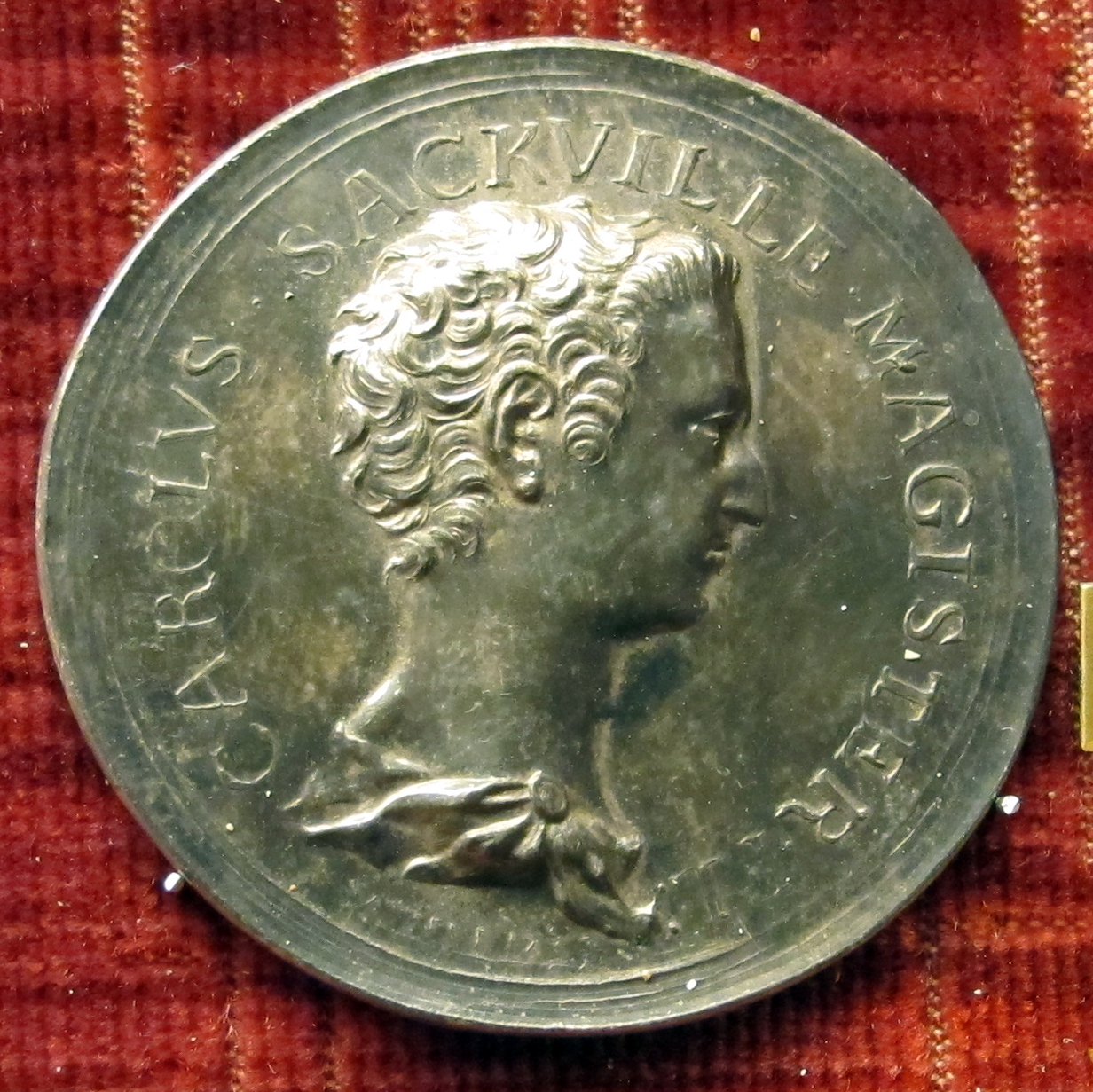 Rococo medal of Florence